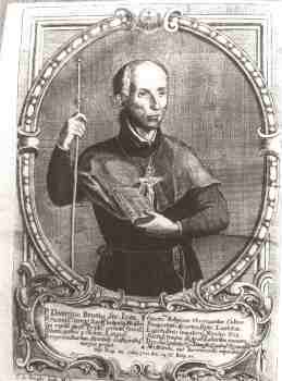 Il Gesuita Domenico Bruno